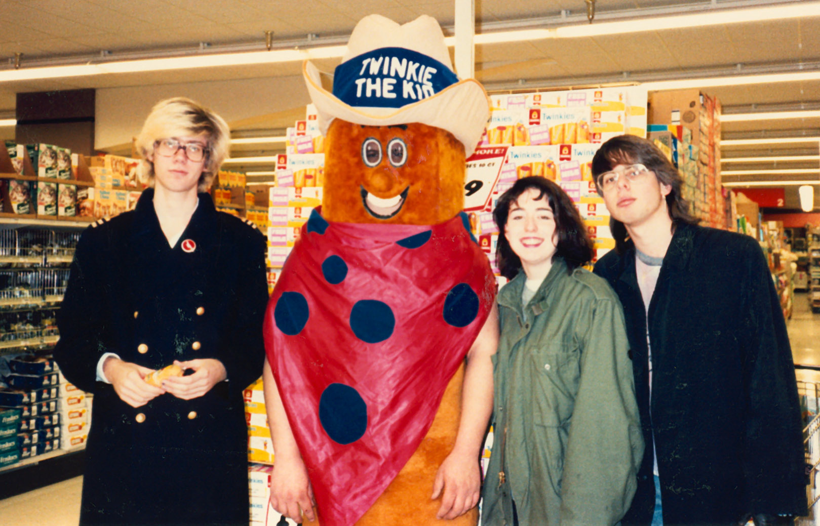 Grand Rapids, Michigan, 1986. Youths in grocery store posing with mascot "Twinkie the Kid".